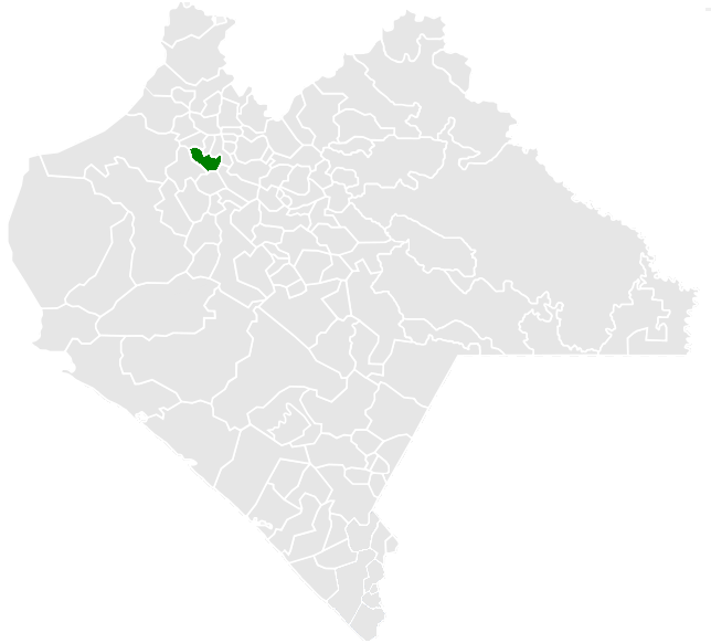 Map of the Municipalty of Coapilla in the State of Chiapas, México.